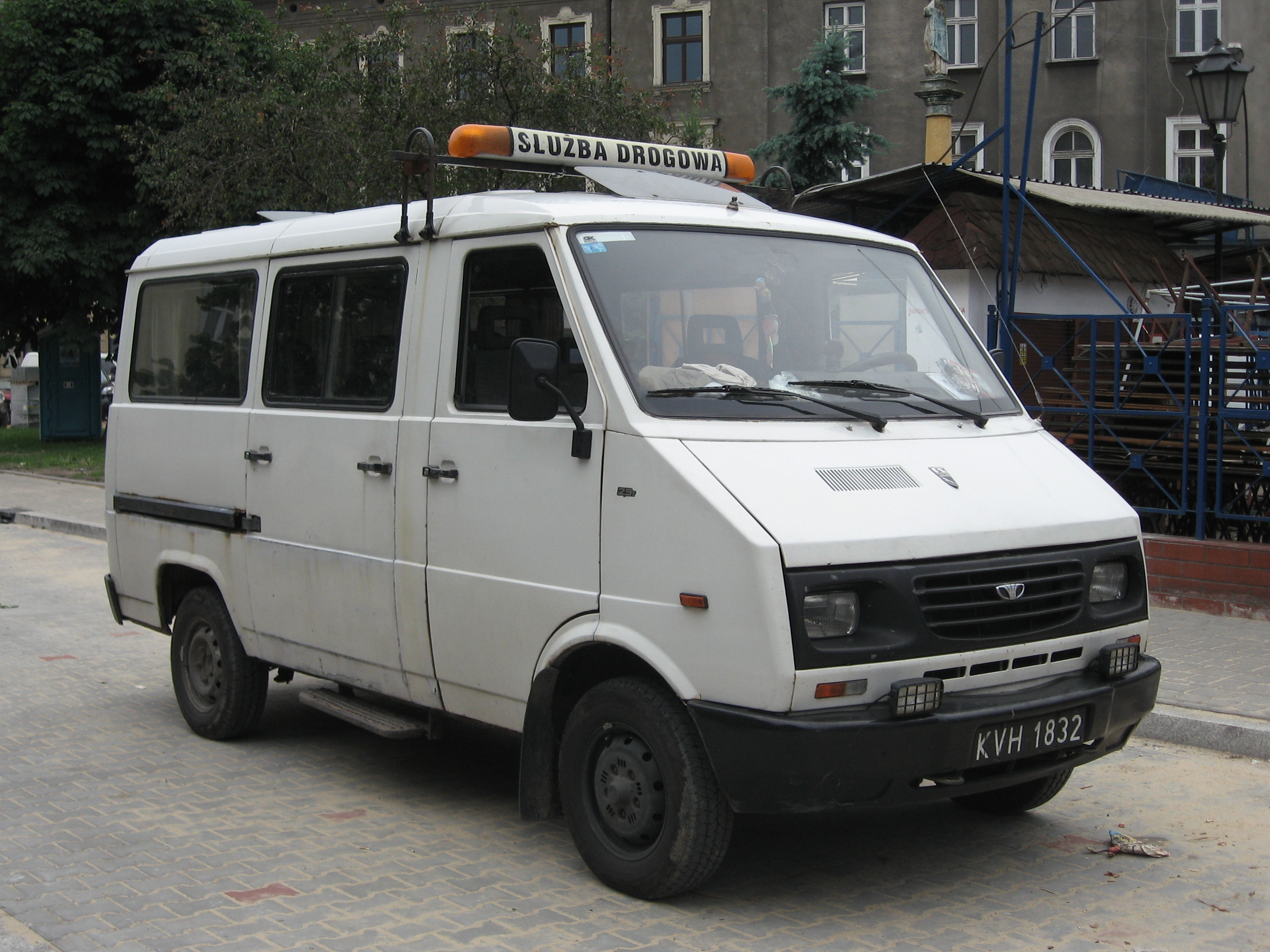 White Daewoo Lublin II of Służba Drogowa during reconstruction of Prądnicka street in Kraków.